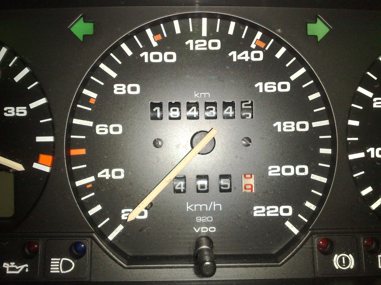 Metric speedometer from a 1992 Euro-spec Passat B3